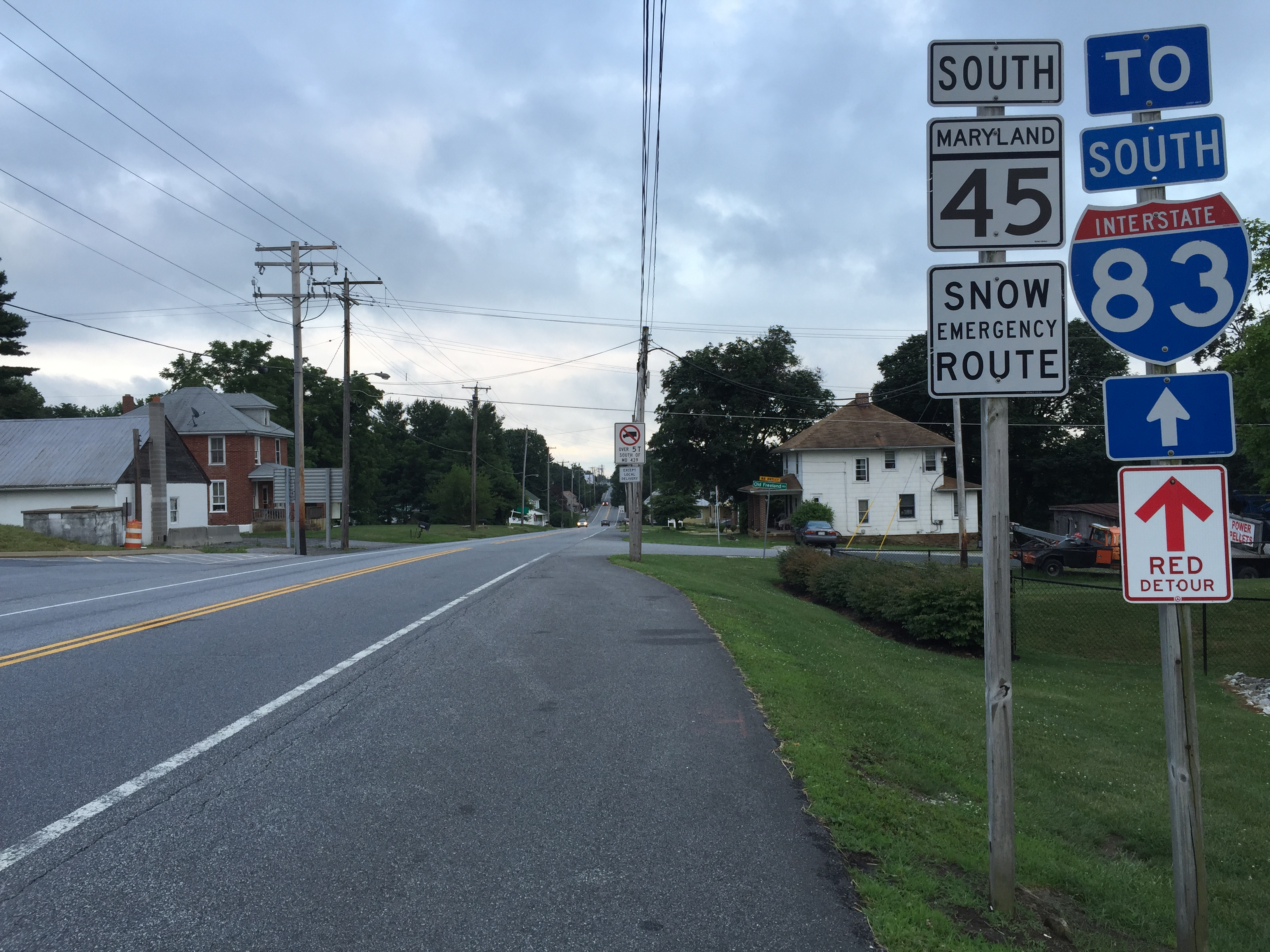 View south along Maryland State Route 45 (York Road) just north of Freeland Road in Maryland Line, Baltimore County, Maryland